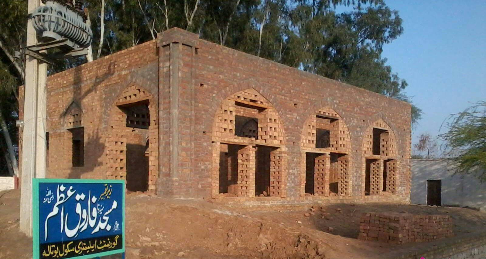 I also Uploaded this Photo on Botala Facebook Page & on website